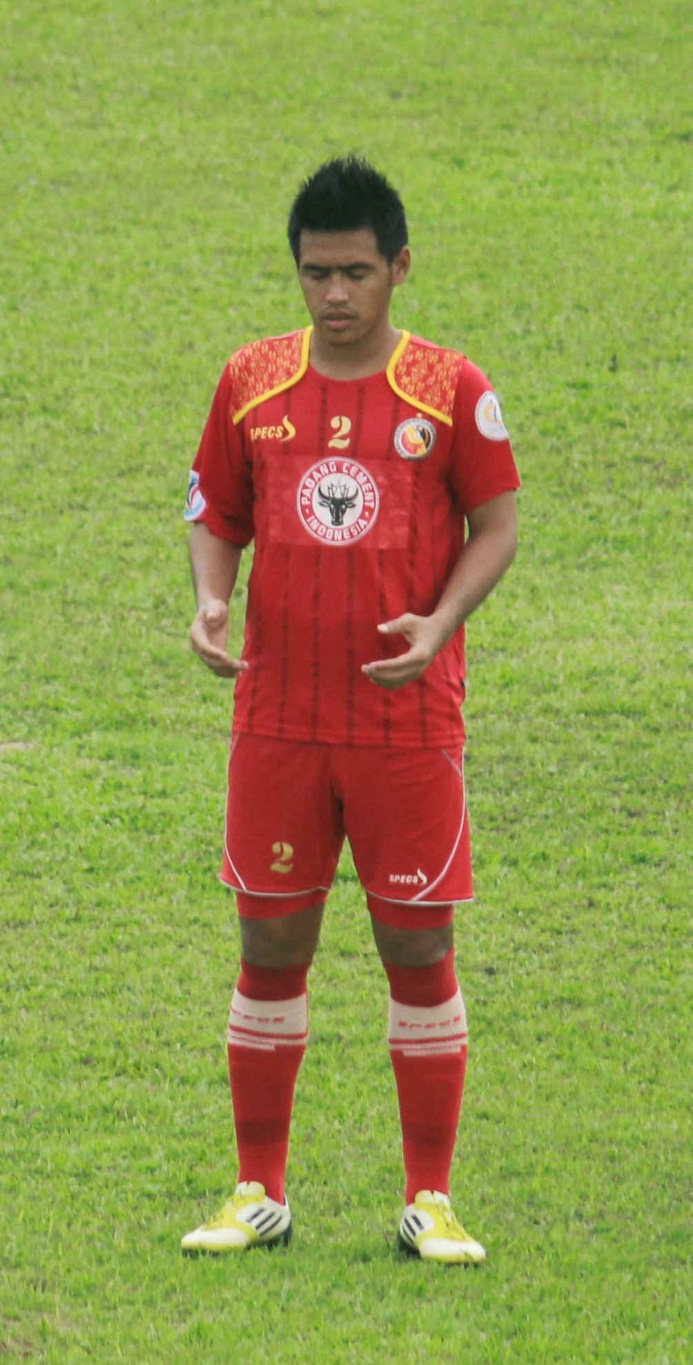 Novan Setya Sasongko praying before start of Semen Padang vs Sime Darby, 30 December 2013 in Padang.